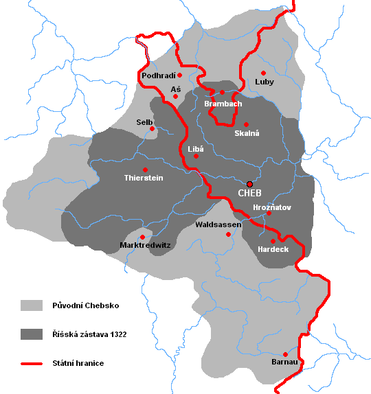 Map of Egerland (Chebsko)